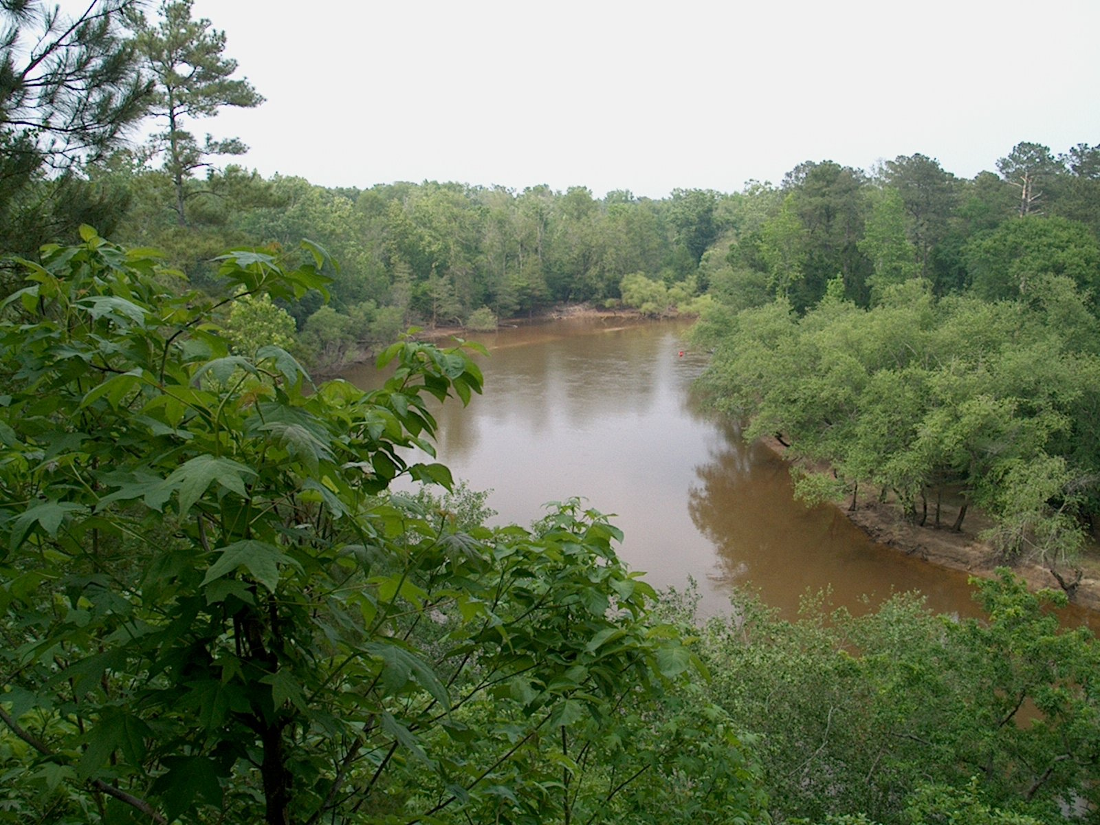 Cliffs of the Neuse State Park. © 2005 Wyatt Greene